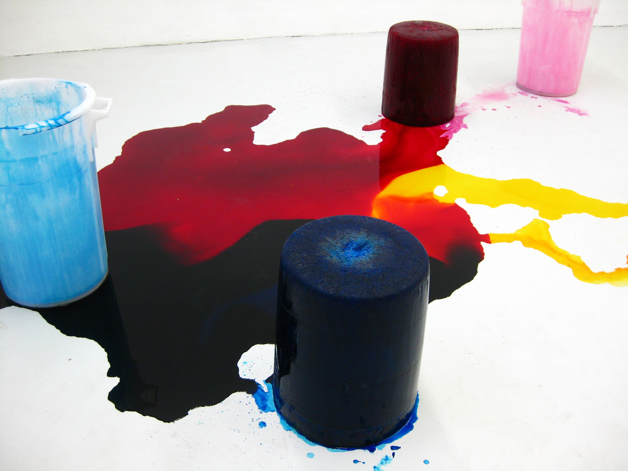 coloured room No.I, 600cm x 700cm, mixed media